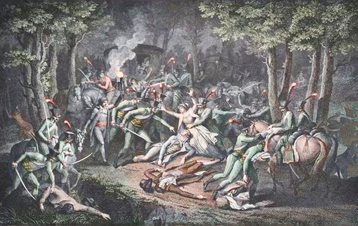 The assassination of the French plenipotentiaries in the night hours from 28 to 29 April 1799 at Rastatt ended the peace efforts between France and Austria.